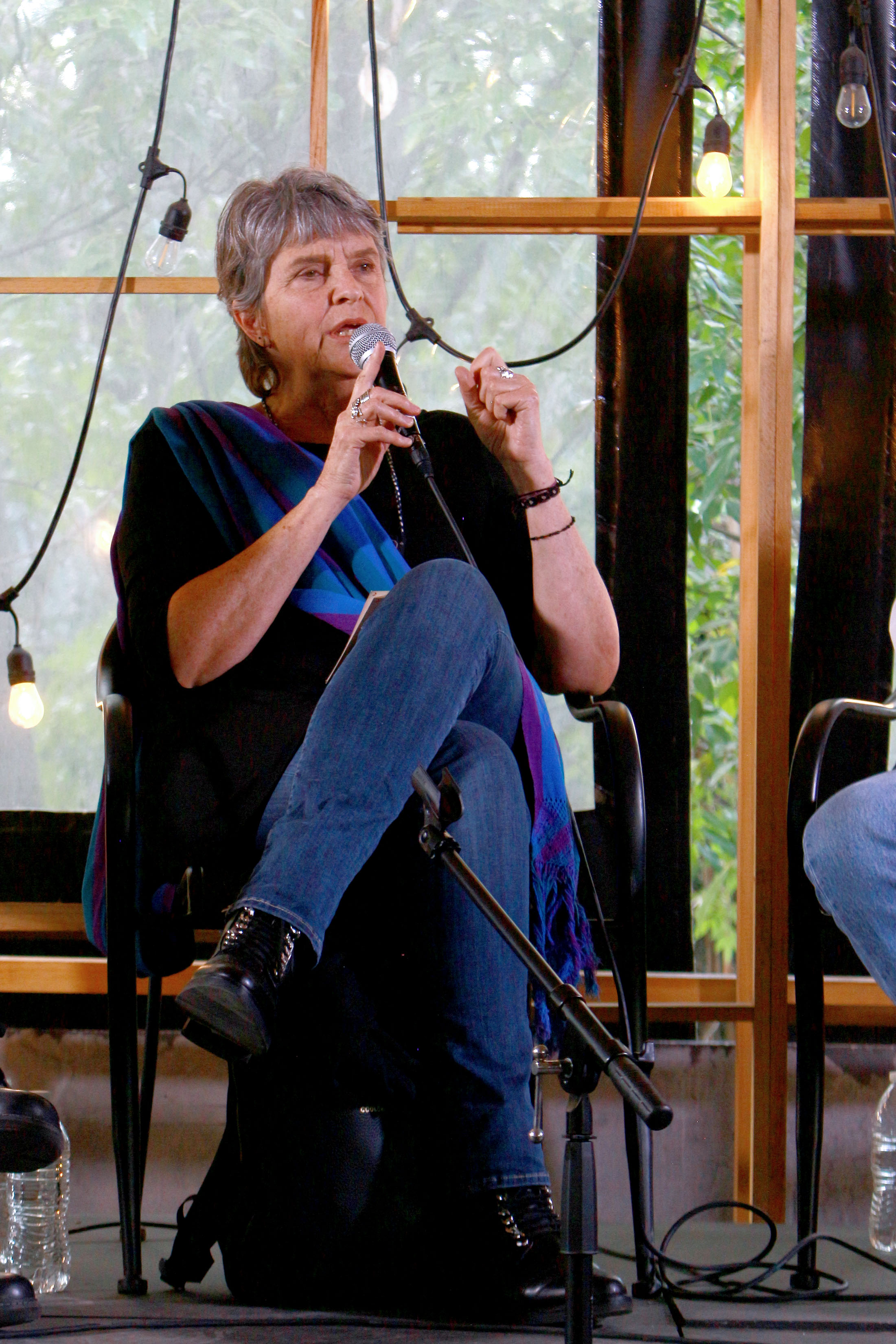 María Novaro at a round table in Mexico City. Wednesday, 2 October, 2019. Picture by Isaac Lopez / Secretaria de Cultura de la Ciudad de Mexico.